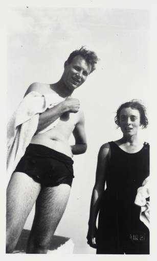 Julian Bell and Elizabeth Watson in bathing suits at Charleston